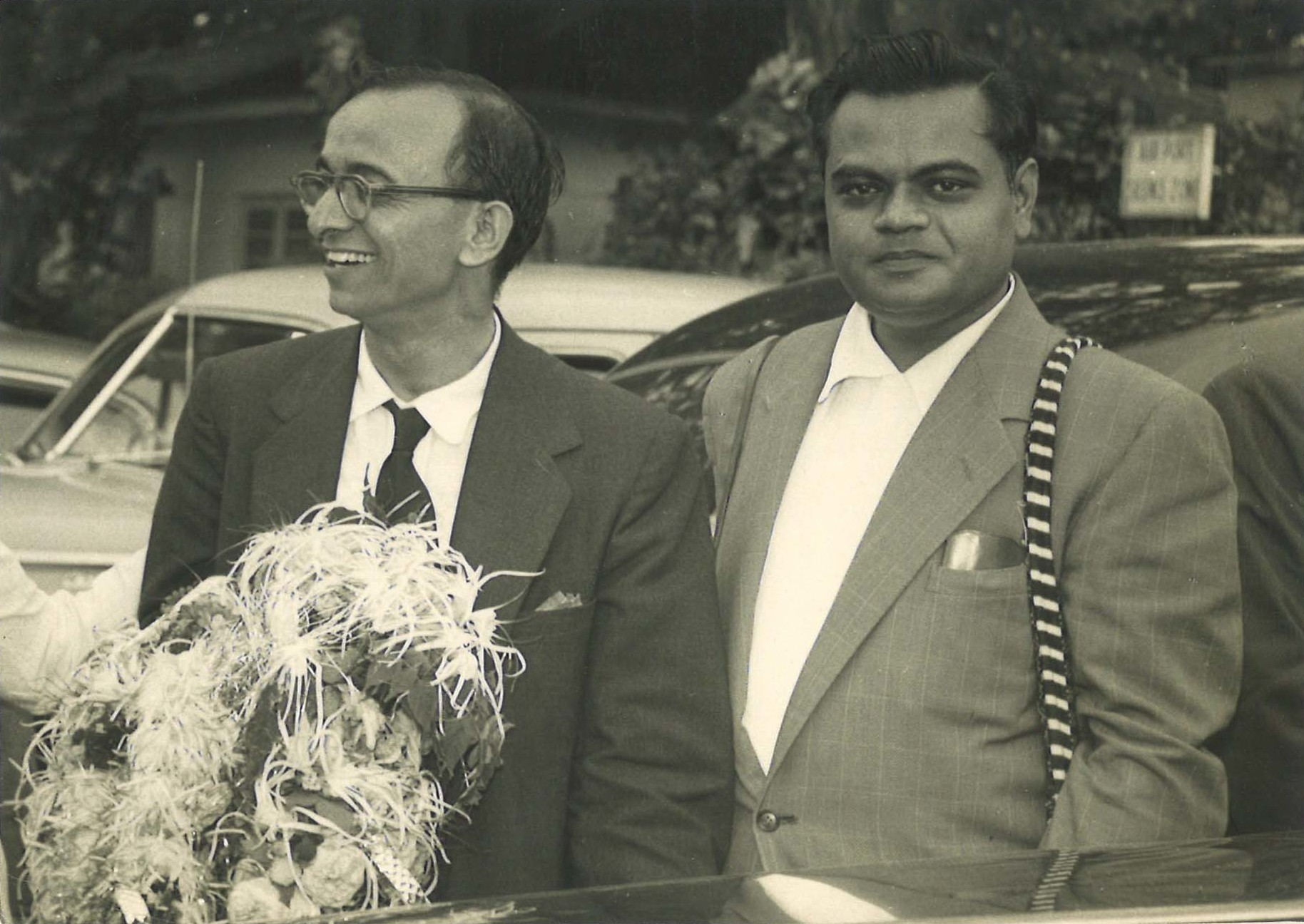 Gujarati writer Chunilal Madia (right) with Gujarati poet Umashankar Joshi (left), Mumbai 1960